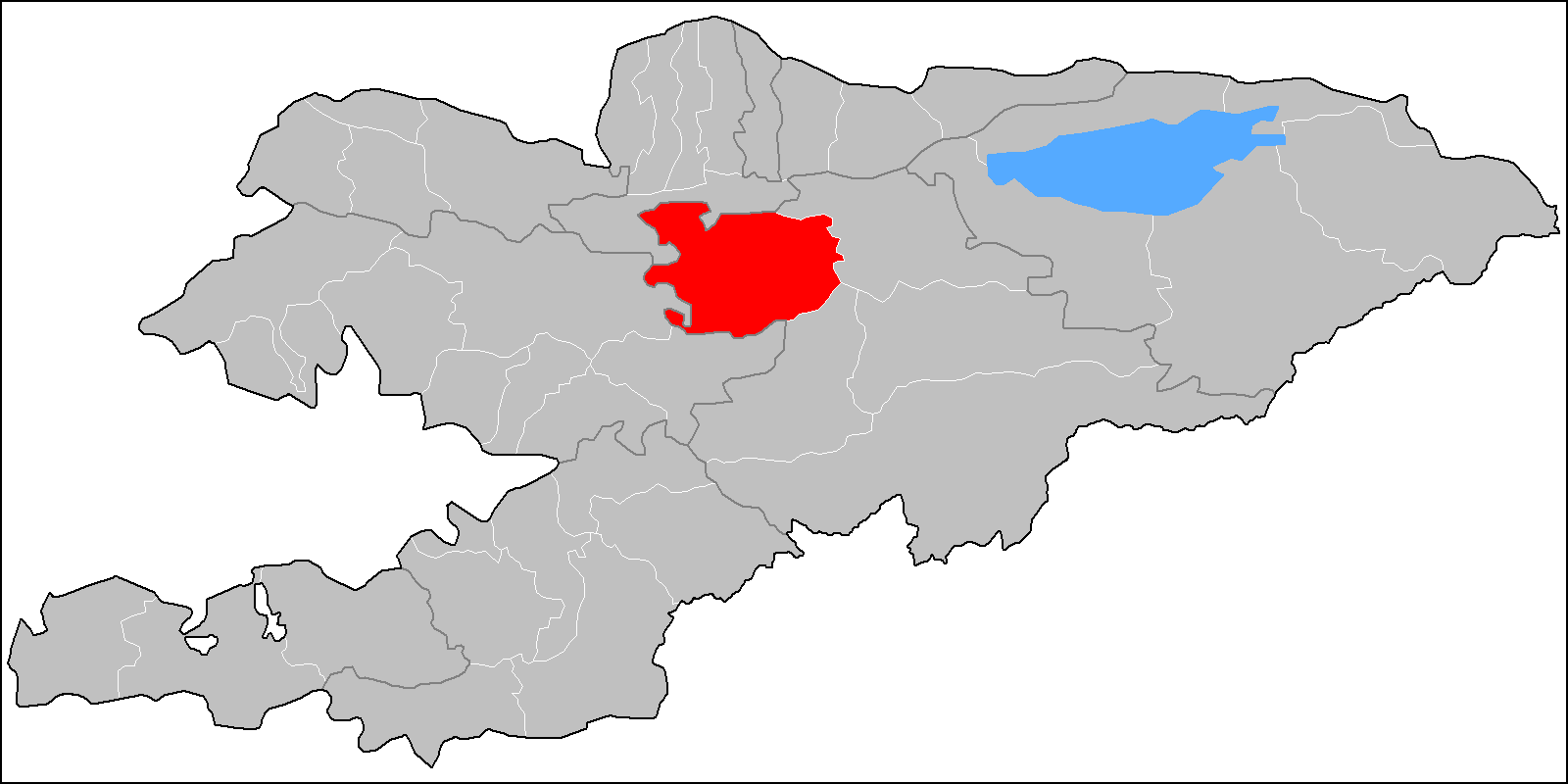 The location of the raion (district) of Jumgal in Kyrgyzstan. Based on Image:Kyrgyzstan raions.png